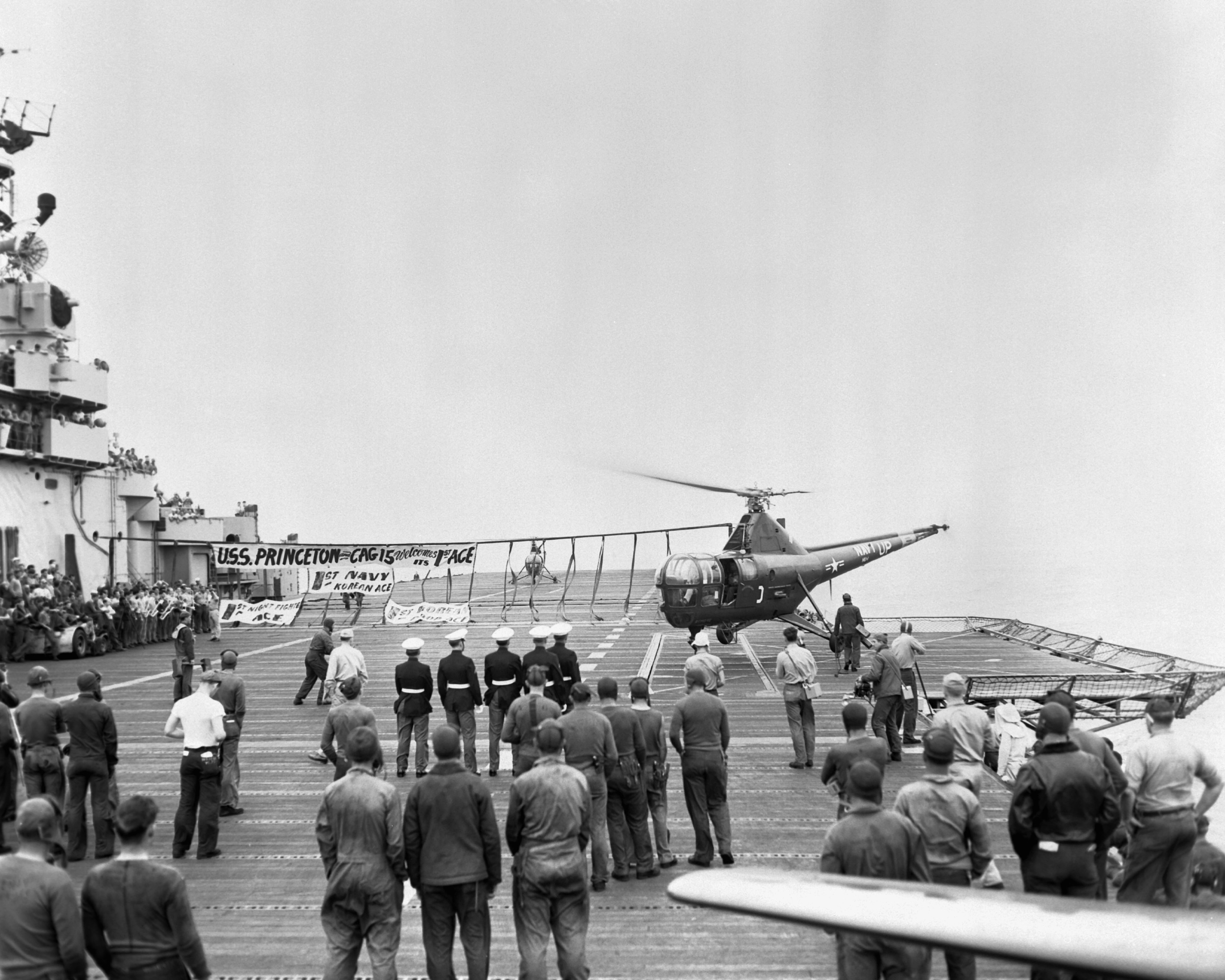 A Sikorsky HO3S-1 helicopter of helicopter utility squadron HU-1 Pacific Fleet Angels lands aboard the U.S. aircraft carrier USS Princeton (CVA-37) on 17 July 1953. The helicopter was returning Lieutenant Guy Bordelon, who had become the only U.S. Navy "ace" during the Korean War, after shooting down his fifth enemy plane the night before. Bordelon was assigned to composite squadron VC-3 Blue Nemesis, which was deployed to Korea on Princeton from 24 January to 21 September to Korea as part of Carrier Air Group 15 (CVG-15). His aircraft, a Vought F4U-5N Corsair (BuNo 124453, NP-21), was left at an airbase in Korea and Bordelon was flown back to the Princeton. An U.S. Air Force Reserve pilot later crashed the plane in an accident.